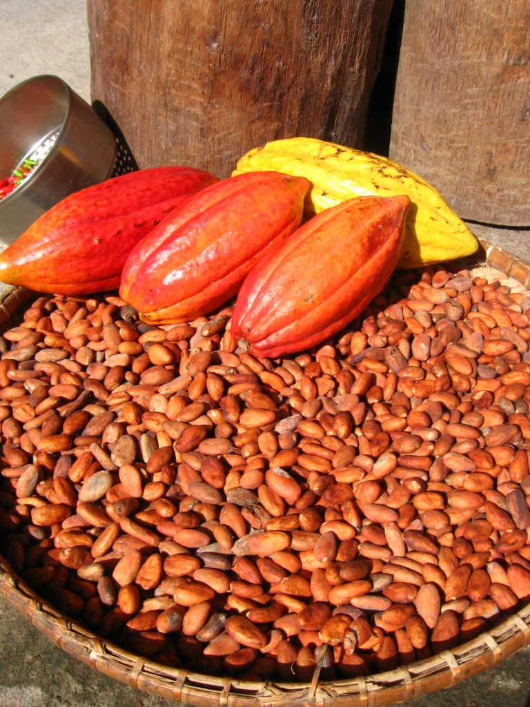 Inside the pods, that grow up the tree's trunk, are where the cocoa seeds are located.